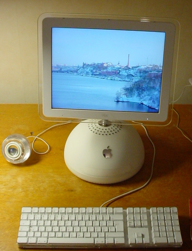 An Apple iMac G4 15", with one Apple Pro Speaker and Apple Pro Keyboard. Photo taken by uploader, all rights released.